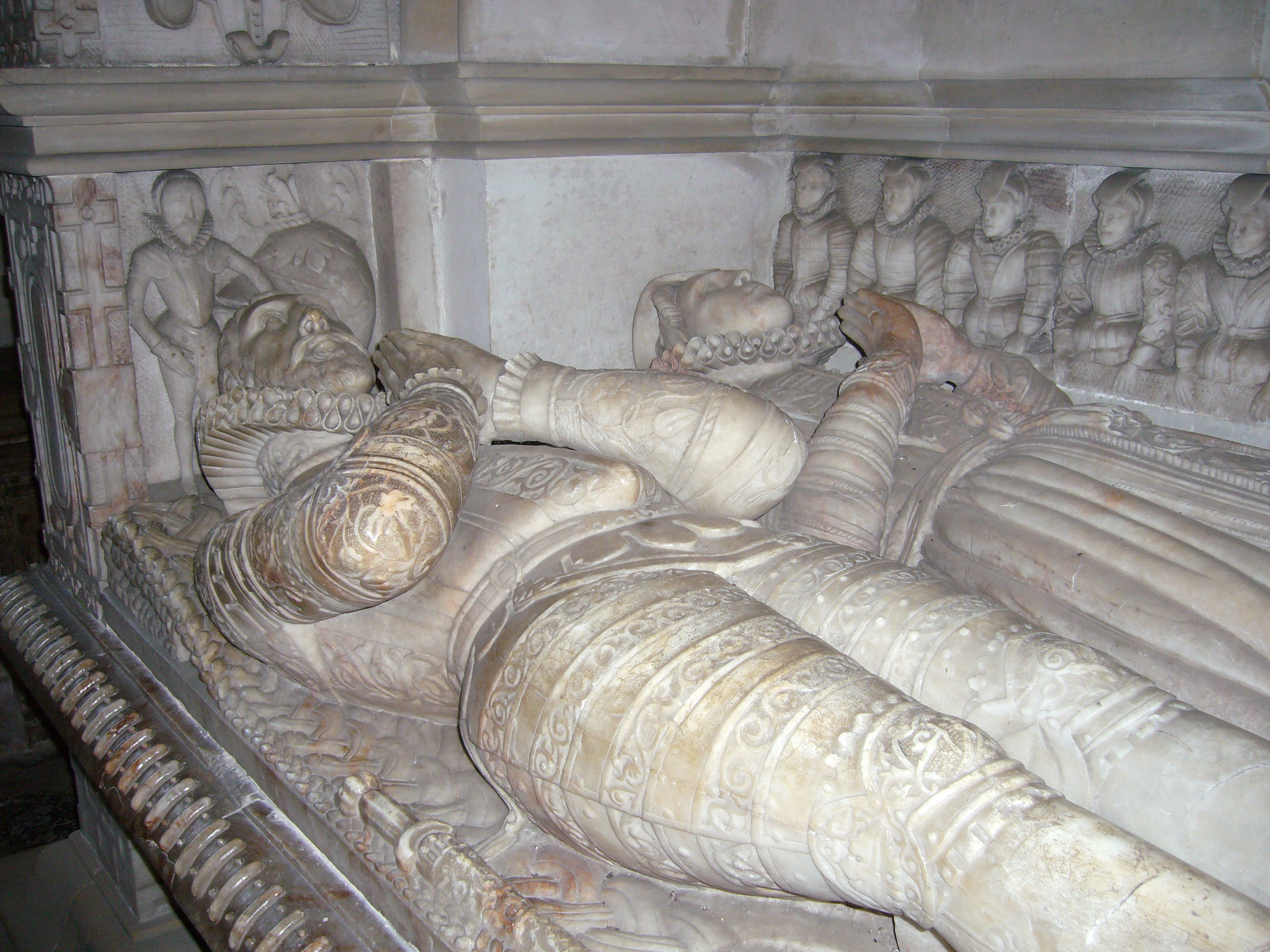 Alabaster recumbent effigies on the monument to Sir Richard Lee (died 1591) and his wife in St Mary's parish church, Acton Burnell, Shropshire